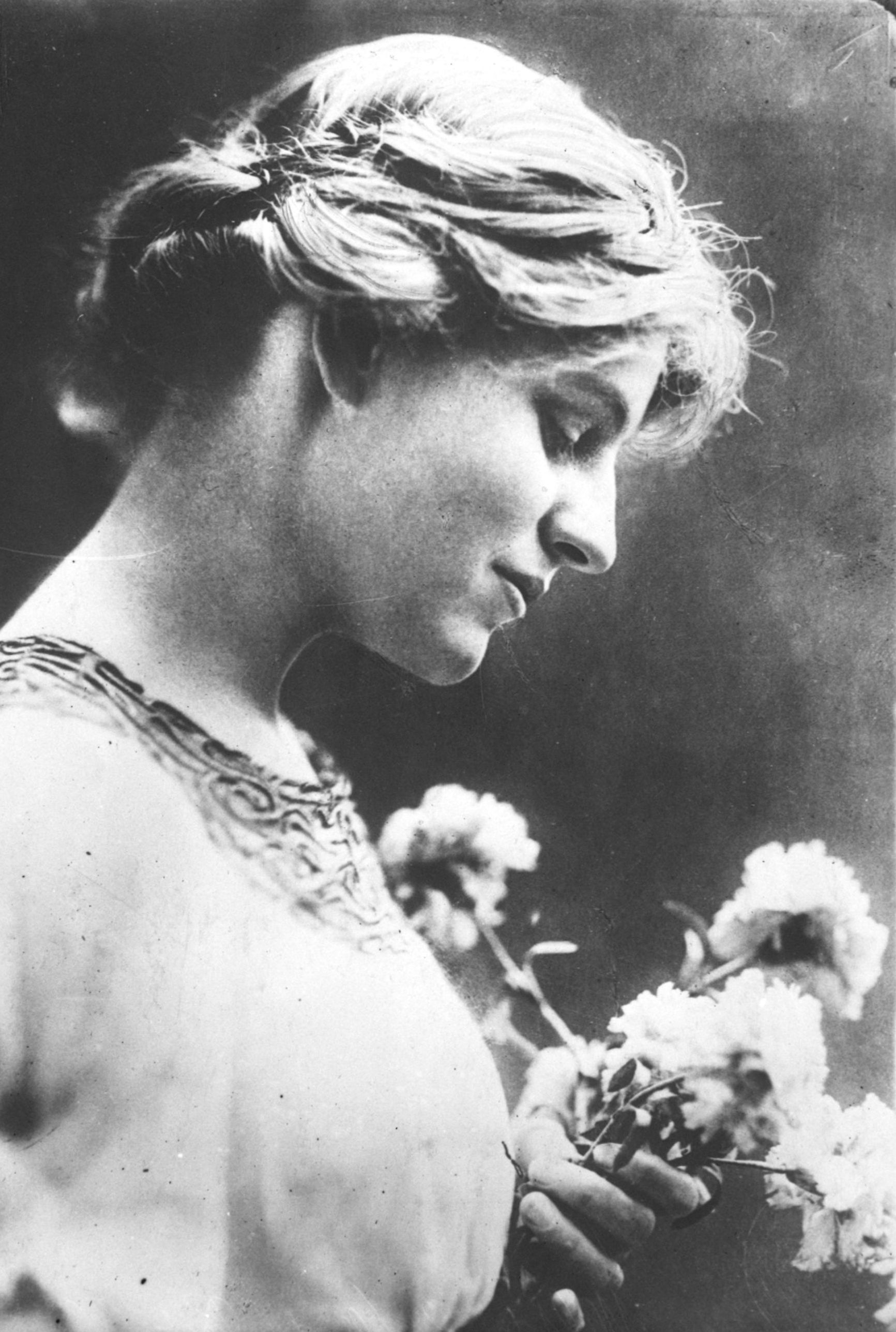 Jessie Woodrow Wilson Sayre (1887-1933), second daughter of US President Woodrow Wilson